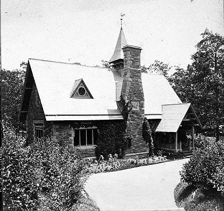 The Dairy Farmhouse, Prospect Park, Brooklyn. Designed by Calvert Vaux.